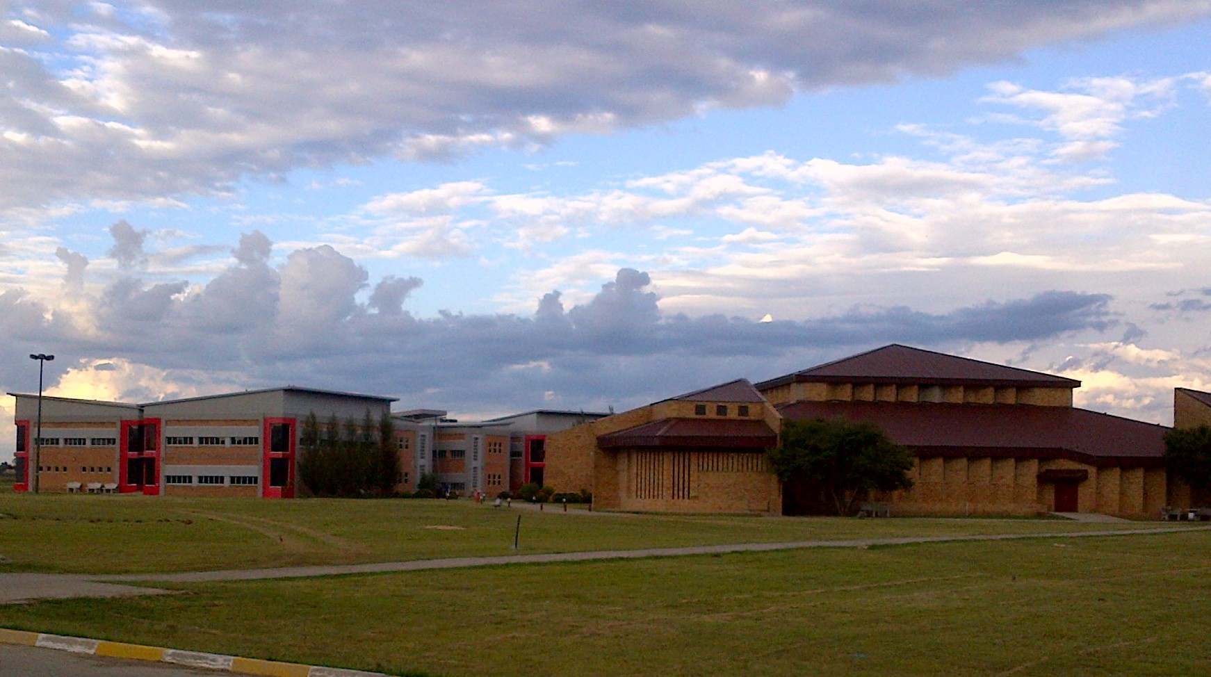 CAmpus of the Central University of Technology Other information Nil